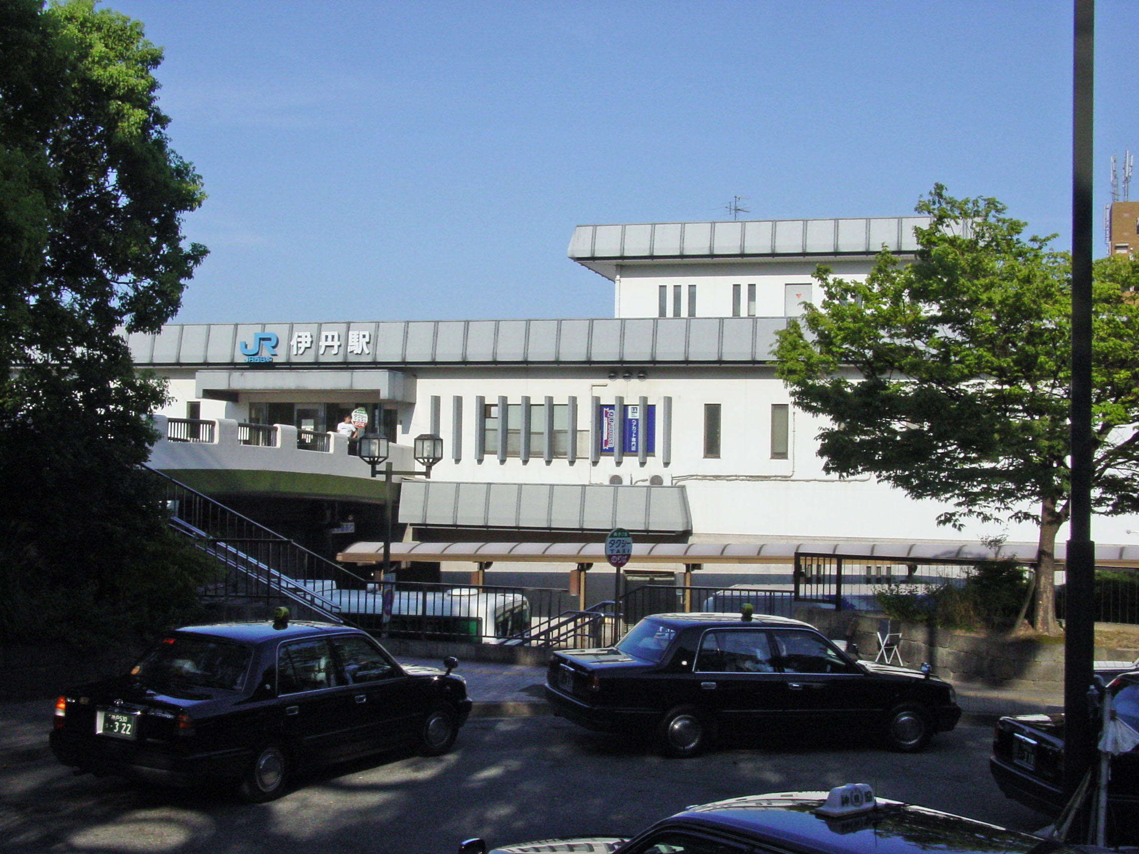 Itami Station of JR West